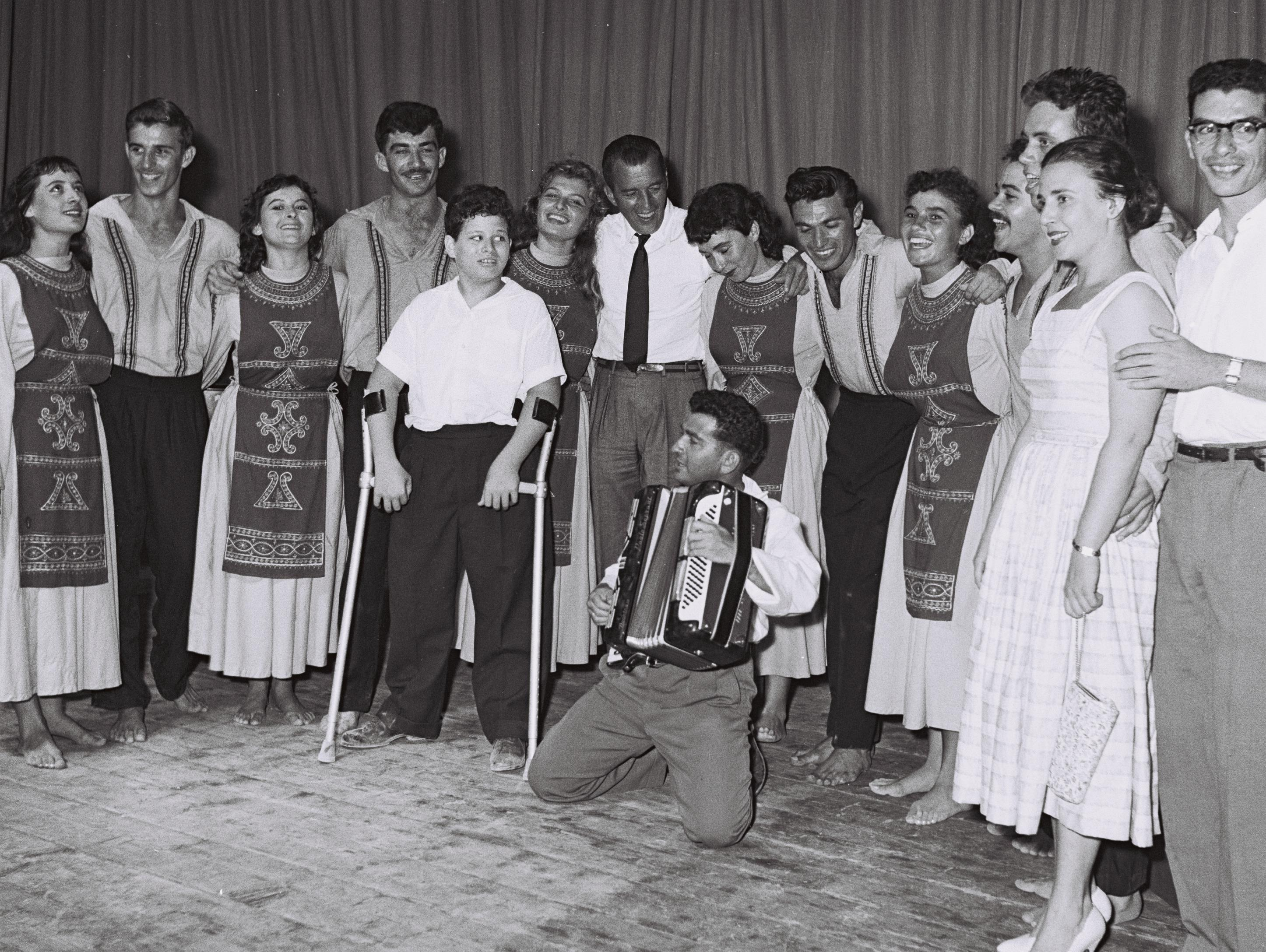 THE CARMON DANCE GROUP, Itzhak Perlman and Ed Sullivan.